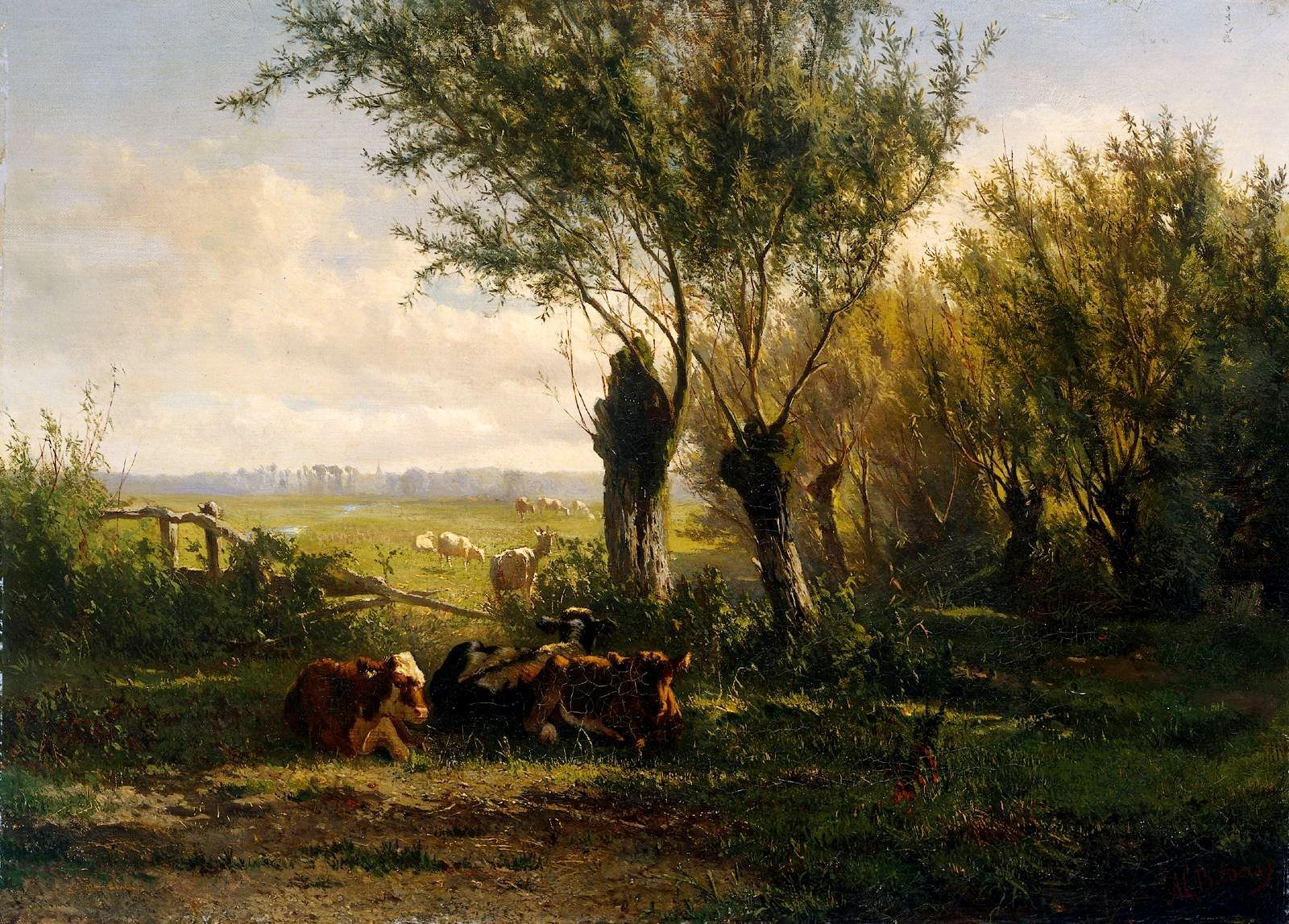 Meadow near Oosterbeek. oil on canvas. 39 cm x 55 cm